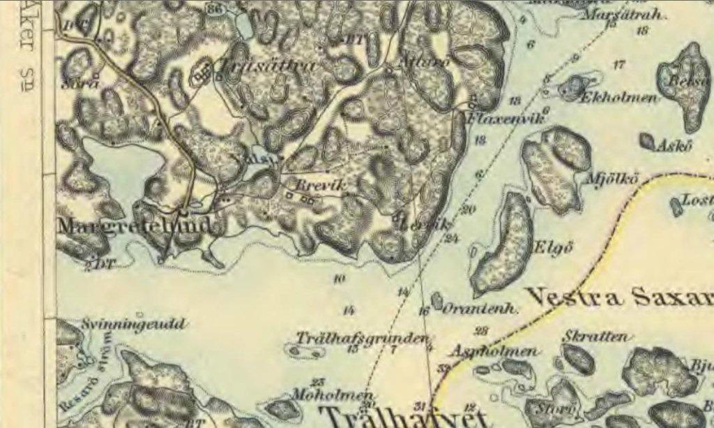 Trälhavet 1901